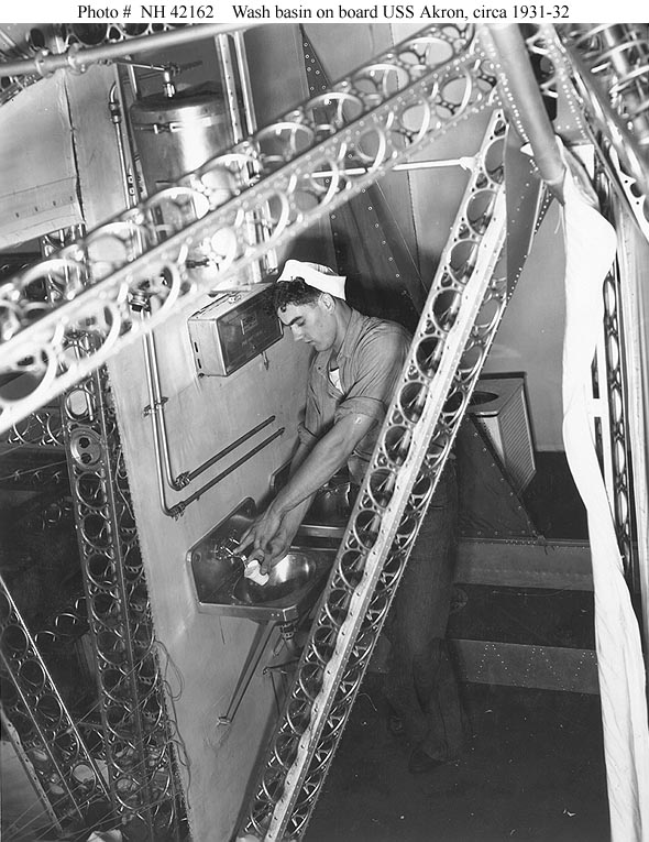 Scene on board the airship, circa 1931-1932, showing a crew member getting a cup of water from a wash basin. Note the aluminum structural members. This photograph was received from the U.S. Navy Recruiting Bureau, New York, in 1932.